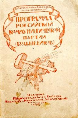 1919 RKP(b) programme cover.